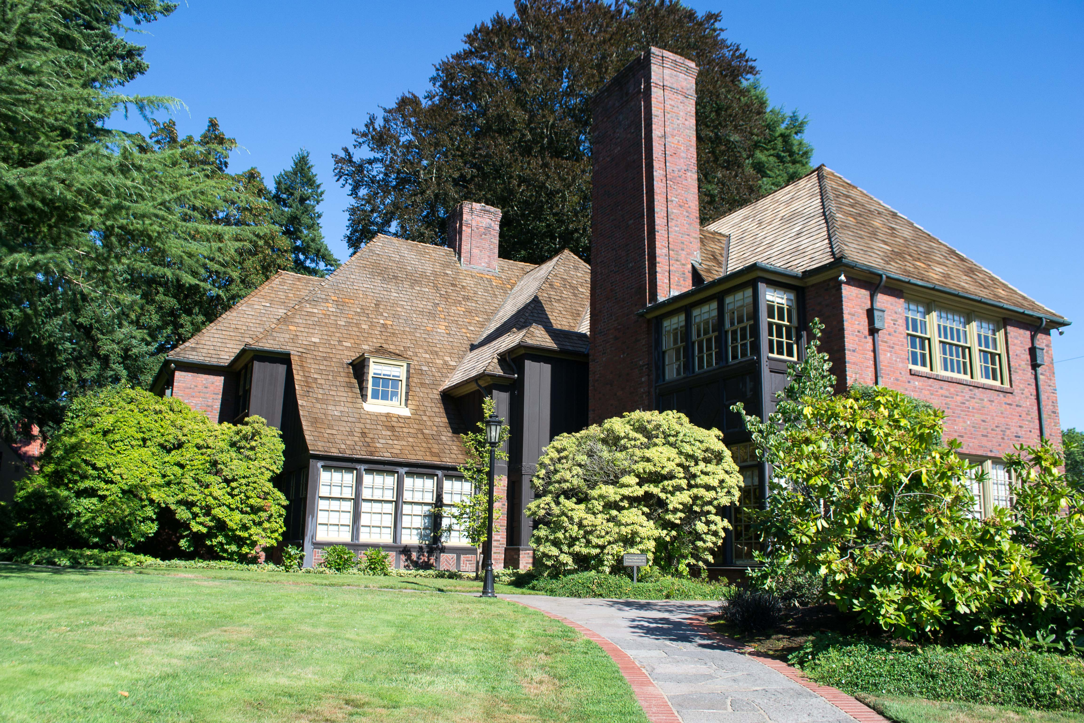 The Parker House was designed by Morris H. Whitehouse for Mary Evans Parker in 1929 and became part of Reed College in 2005.